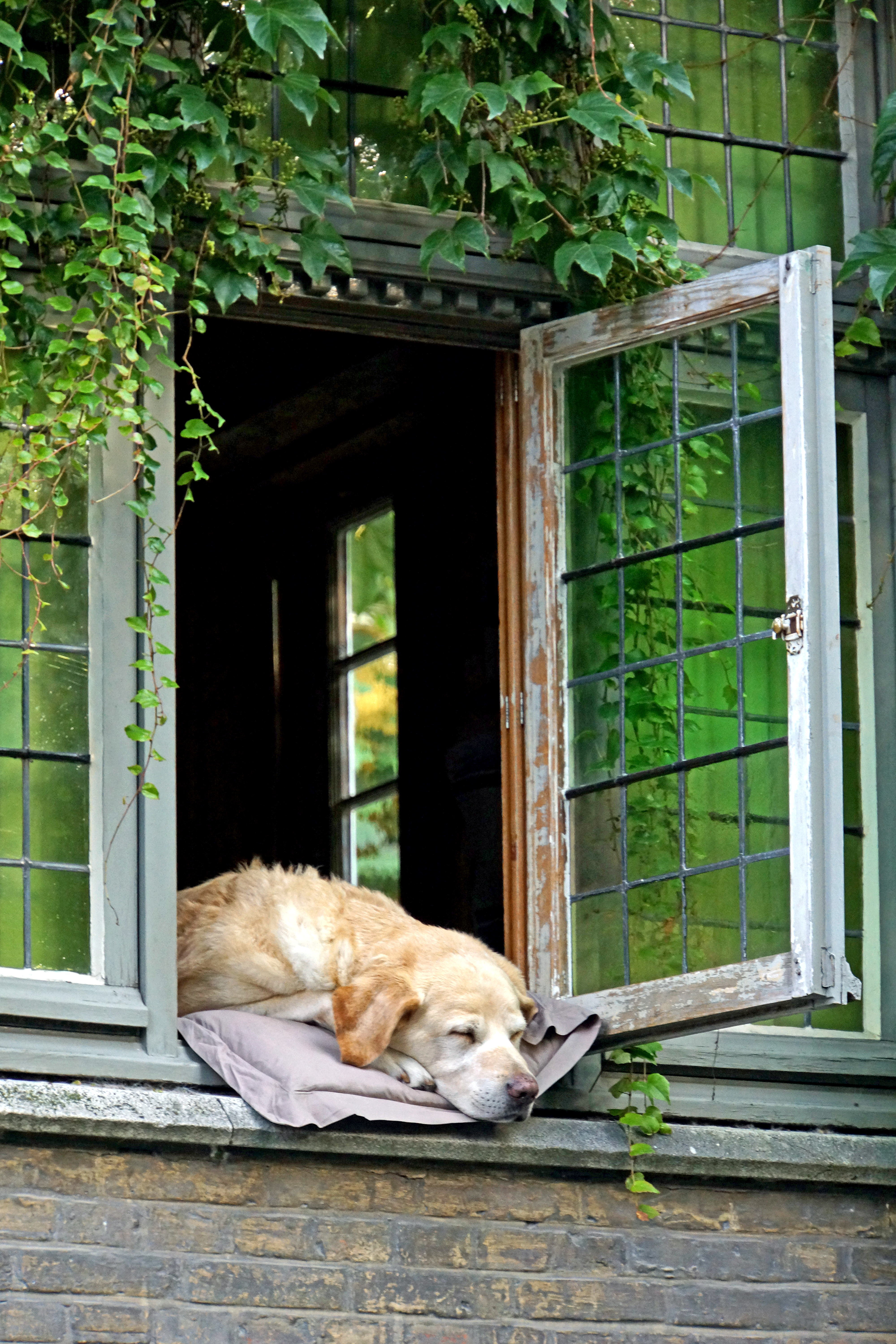 PLEASE, NO invitations or self promotions, THEY WILL BE DELETED. My photos are FREE to use, just give me credit and it would be nice if you let me know, thanks. Guide said this was the most photographed dog in Bruges, it is always there.